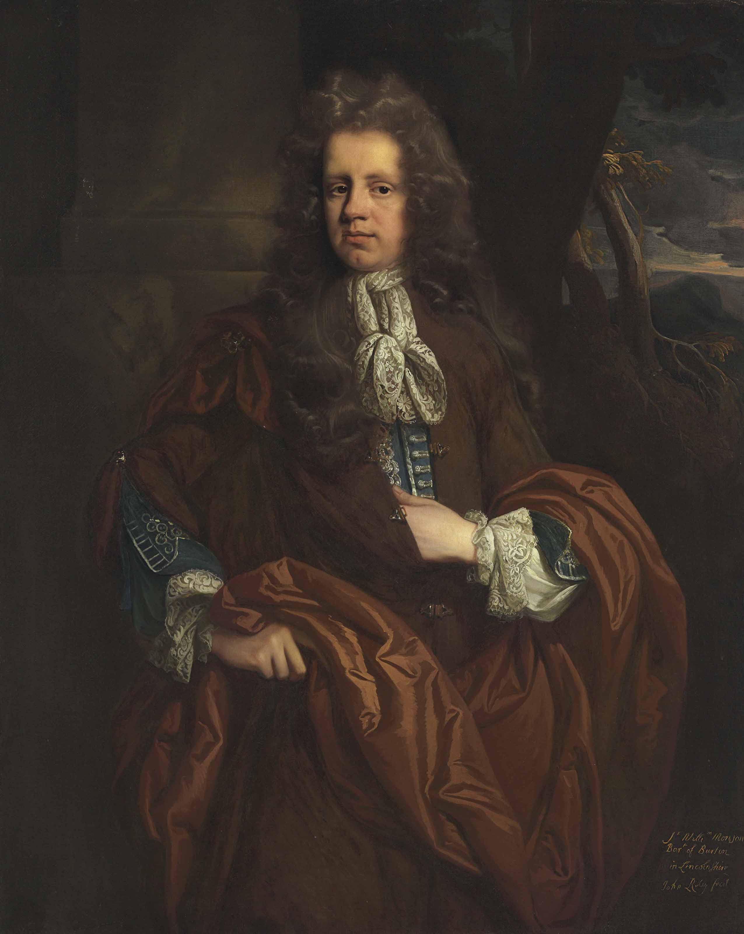 Sir William Monson, 4th Bt. (c. 1653-1727) oil on canvas 126.7 x 103.5 cm inscribed b.r.: Sr. Willim Monson / Bart. of Burton / in Lincolnshire / John Riley fecit